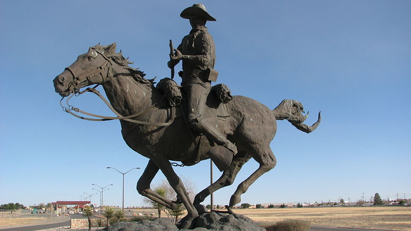 Buffalo Soldier Memorial of El Paso, Fort Bliss, depicts 'The Errand of Corporal Ross', I Troop, 9th Cav